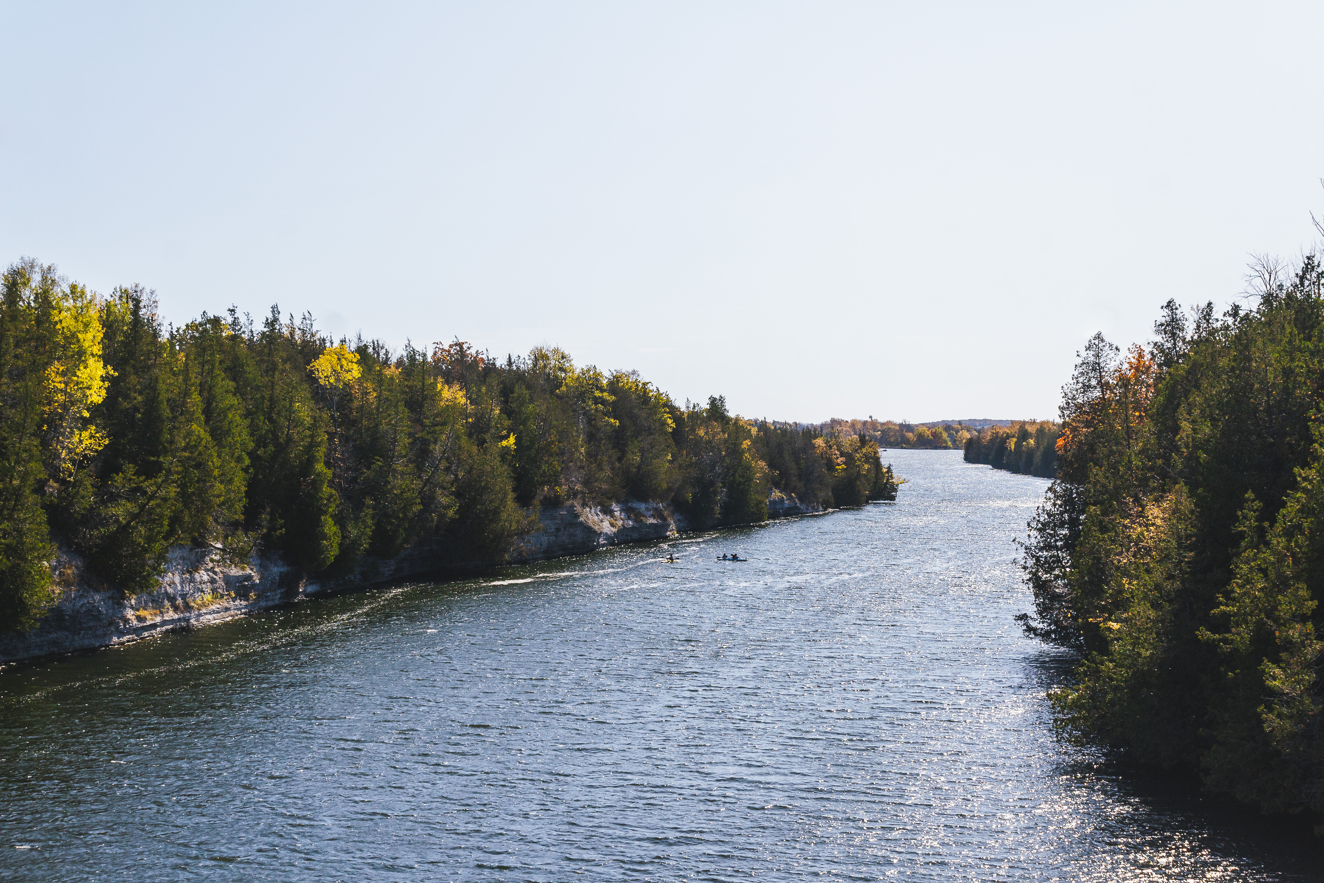 A view of the Trent River and Ferris Provincial Park (to the left) in Campbellford, Ontario. This was taken from Ranney Suspension Bridge. Visible here are two kayaks (three people in total) and the colourful autumn foliage.